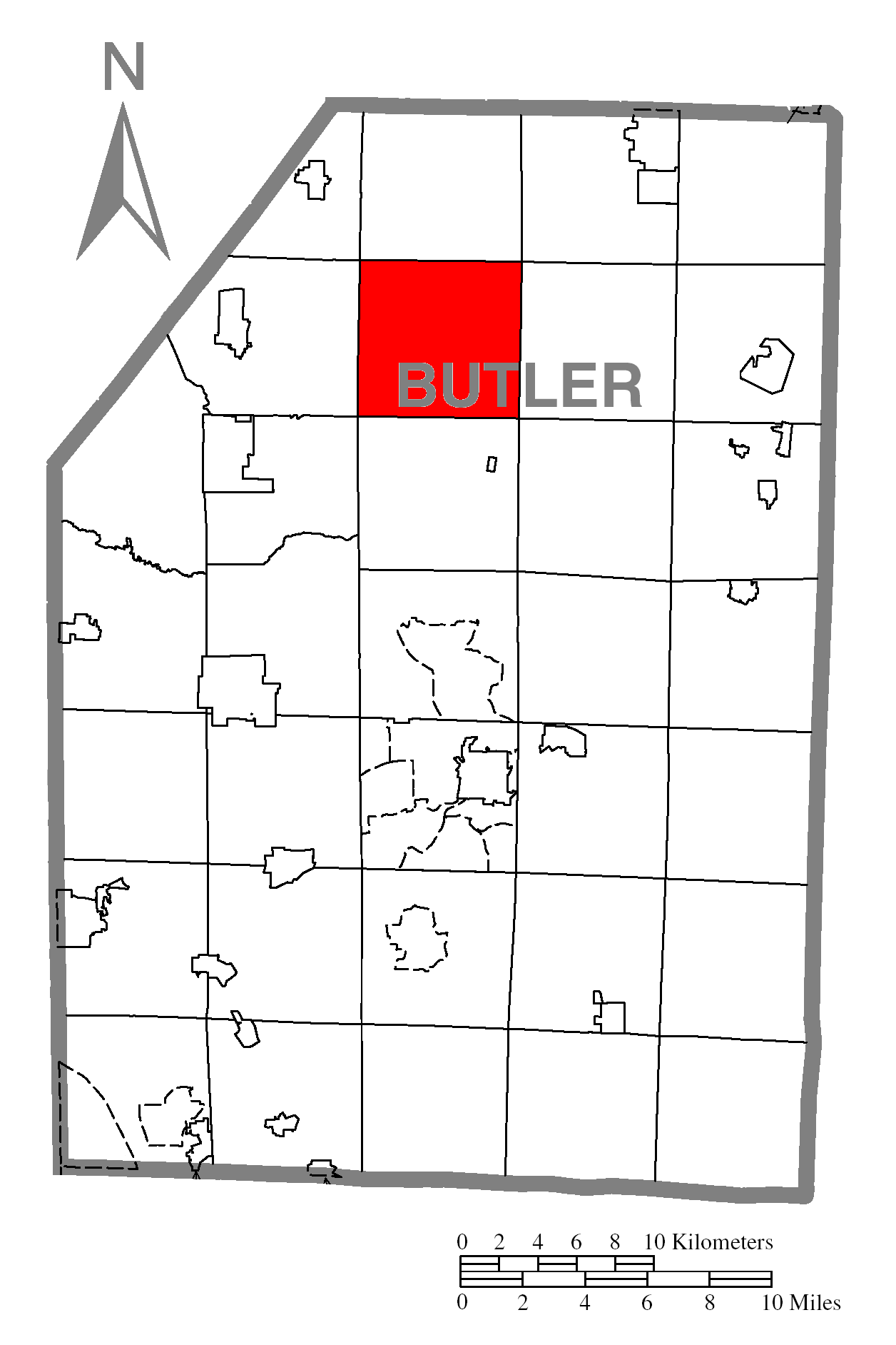 A map of Butler County showing Cherry Township, Pennsylvania (alternate) highlighted on the map.